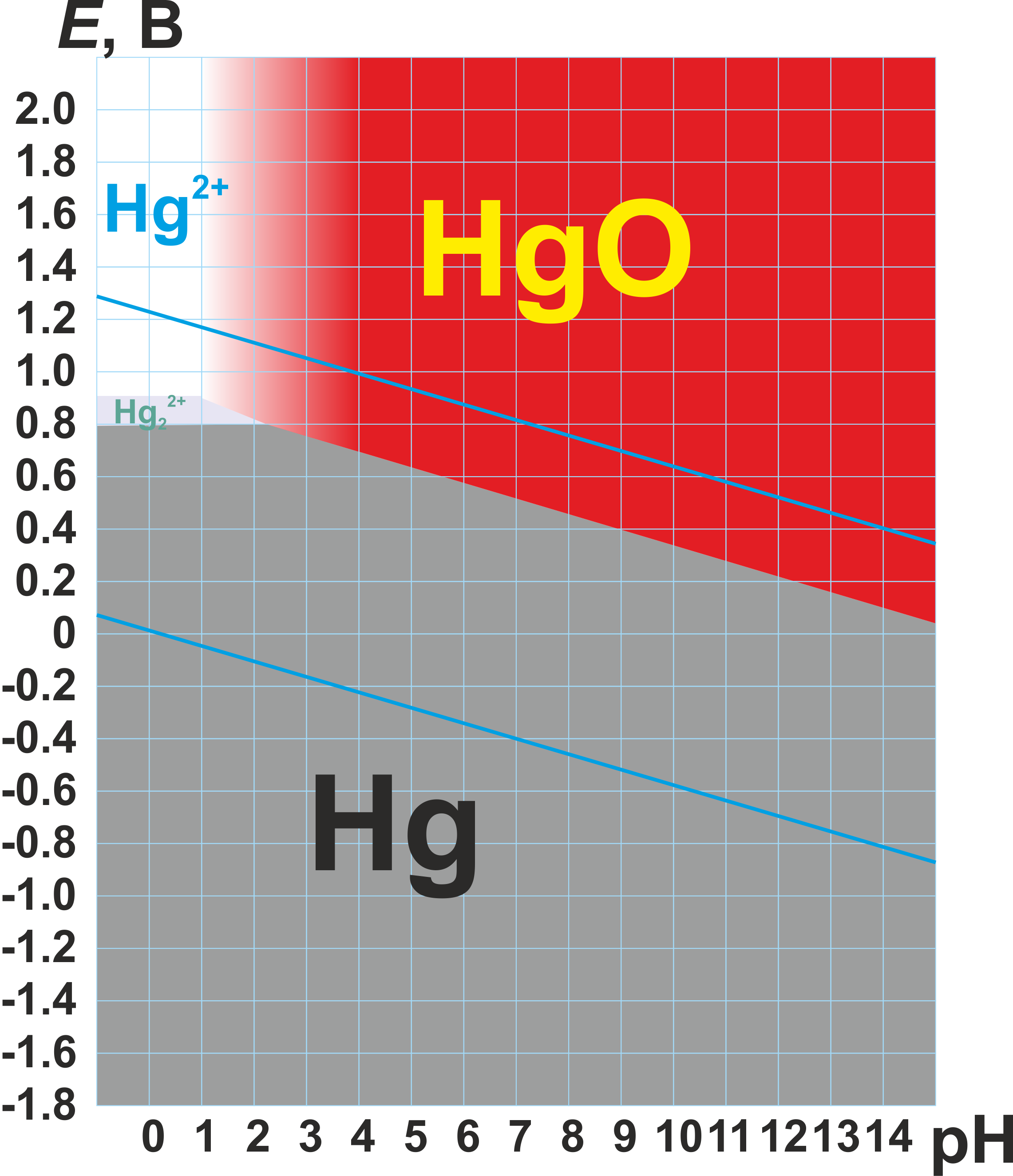 Pourbax diagram for mercury